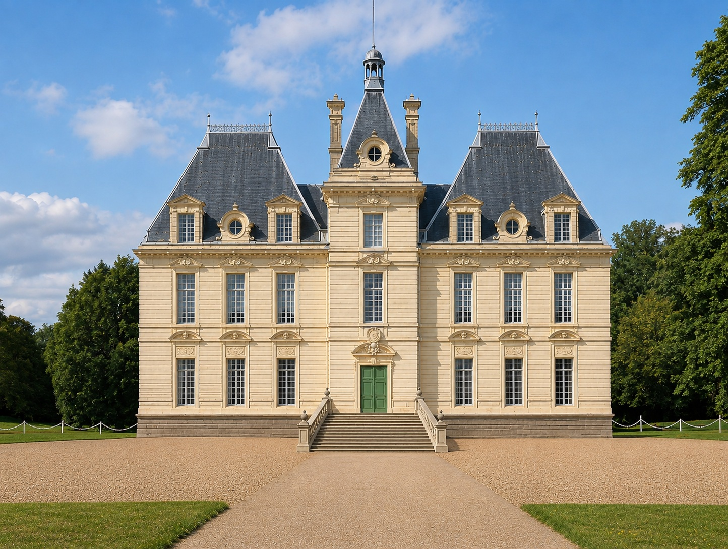 Artistic impression of fictional building Marlinspike Hall/Chateau de Moulinsart created using Adobe Photoshop to delete the side wings from a photograph of Chateau De Cheverny